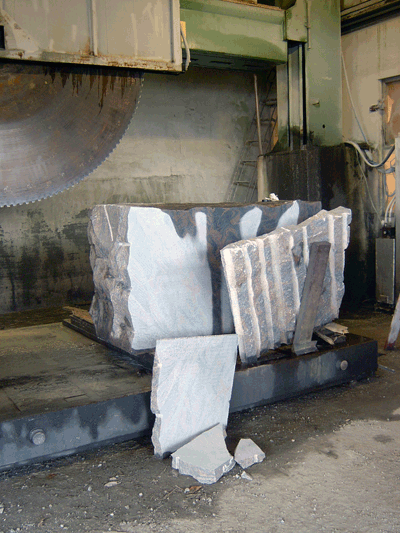 A photo from Taken by Halvard from Norway.